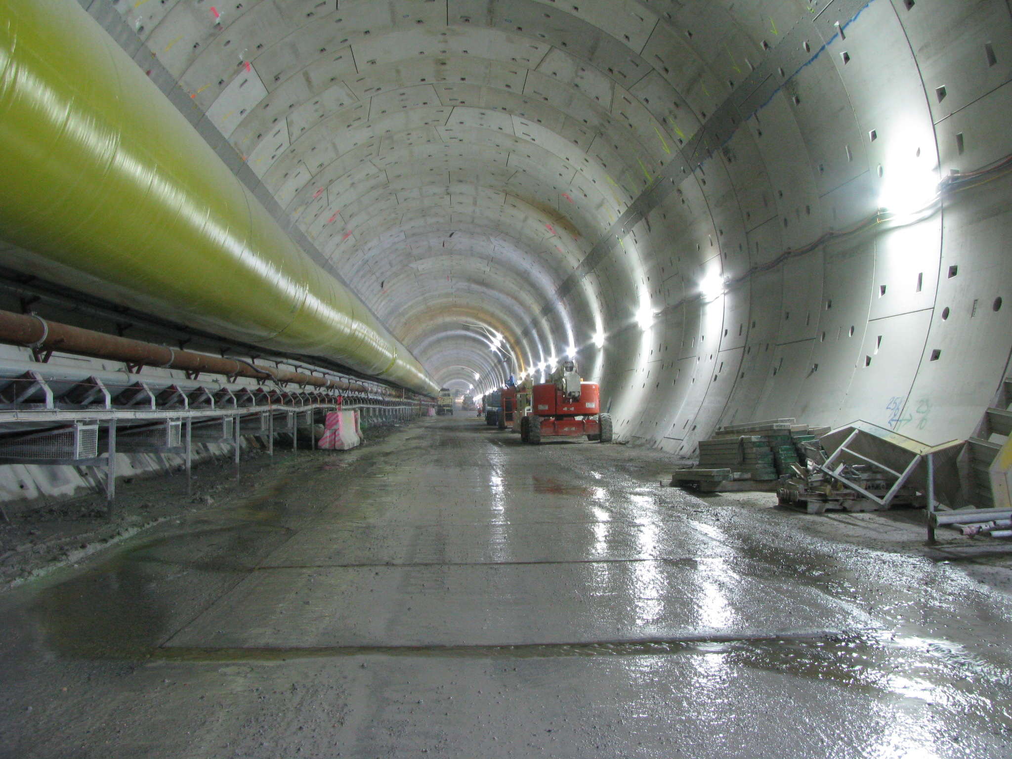 North South Bypass Tunnel, Brisbane, Australia during construction